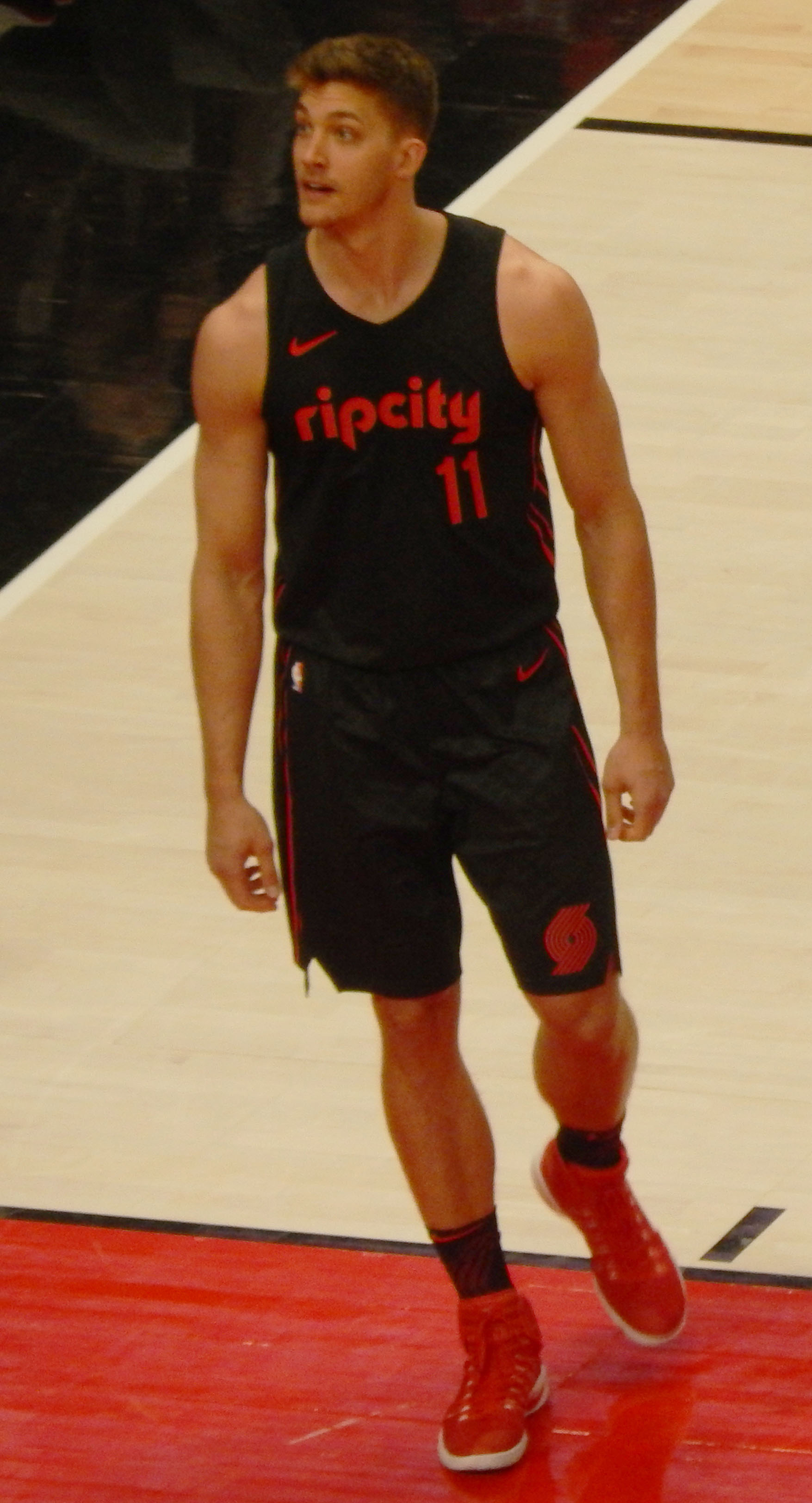 Meyers Leonard #11 of the Portland Trail Blazers against the Sacramento Kings on February 27, 2018 at Moda Center in Portland, Oregon.